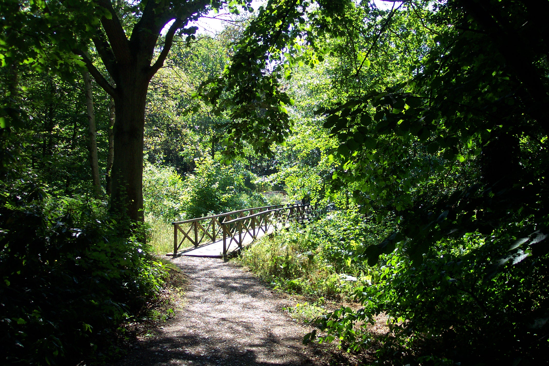 Woodland glade in the Whiteknights Park campus of the University of Reading, in the town of Reading in the English county of Berkshire. The footbridge crosses the head of the upper of the three lakes that divide the Whiteknights Park campus, and is located in the area historically known as 'The Wilderness'. For more information see the Wikipedia article Whiteknights Park.